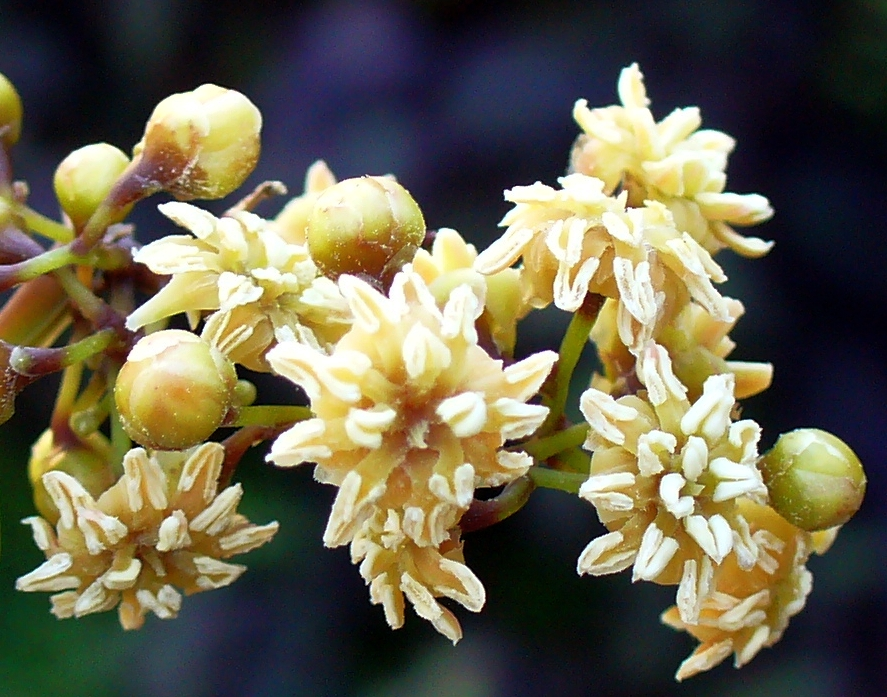 Male flowers of Amborella trichopoda. Wertheim Conservatory, Florida International University, Miami, Florida, USA.